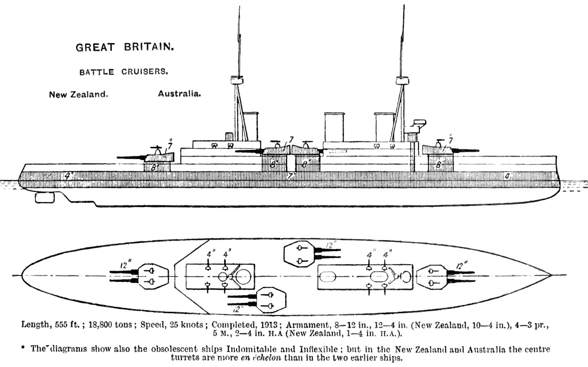 Diagrams in Brassey's Naval Annual purporting to depict British Indefatigable class battlecruisers. The diagrams in fact show the Invincible class. Numbers on top diagram show armour thickness (shaded areas) in inches. Numbers on bottom diagram show size of guns in inches.